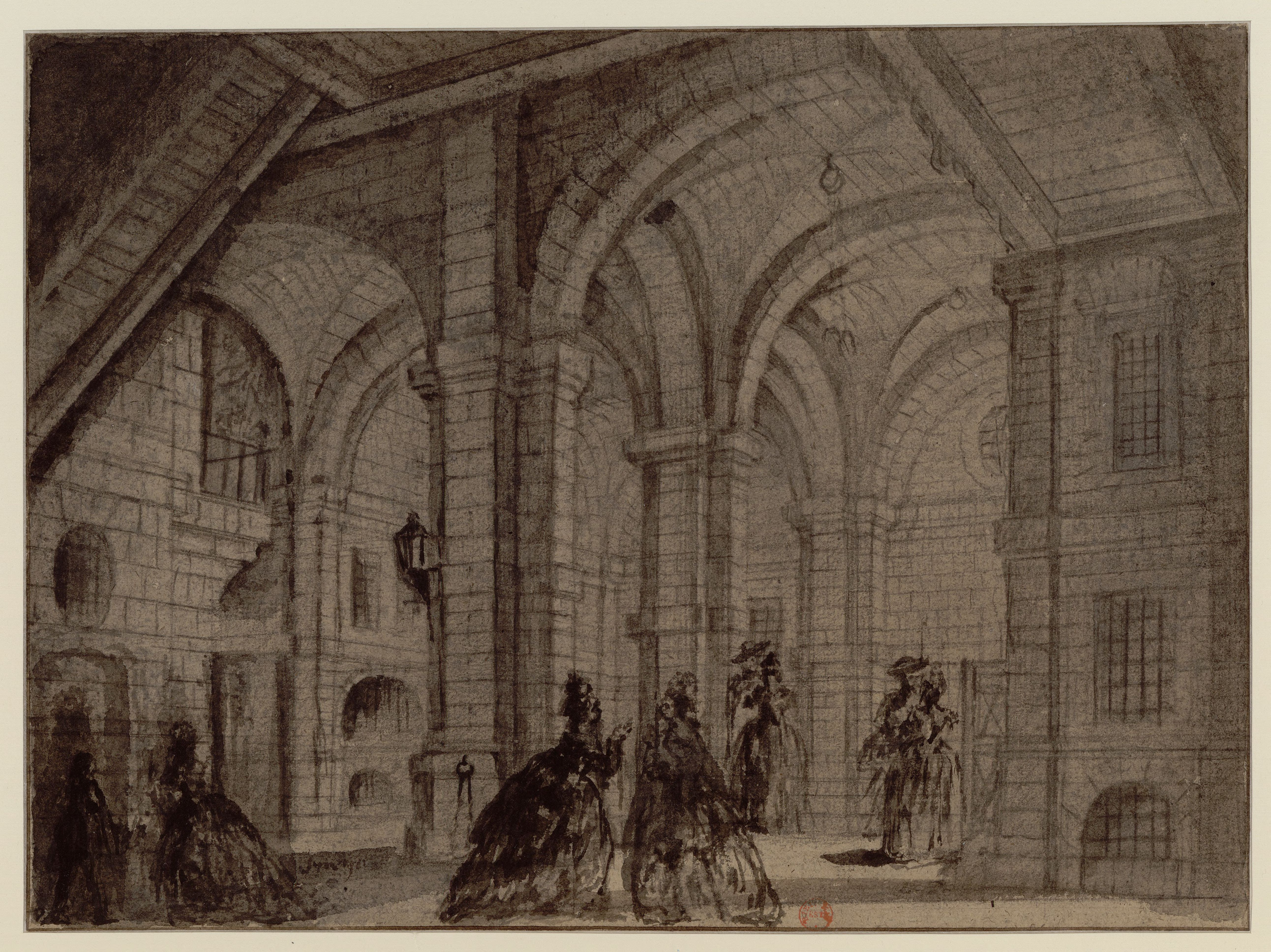 Bastille courtyard